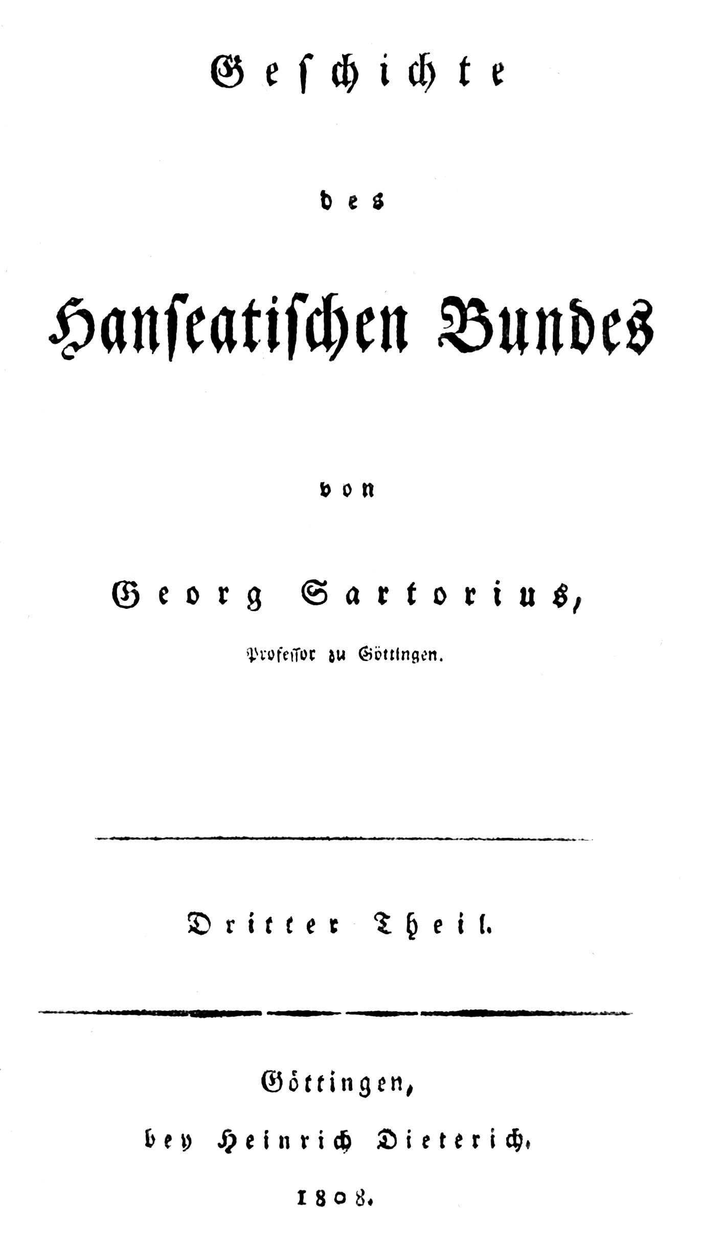 Cover page George Sartorius book